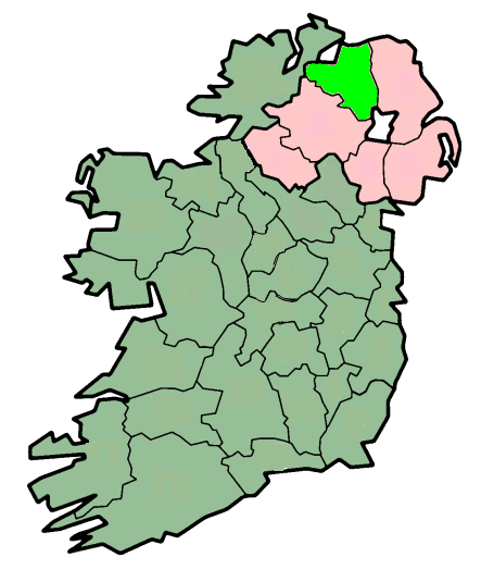 Location of County Londonderry (Condae Dhoire) (light green) within Northern Ireland (pink) in the island of Ireland (green)